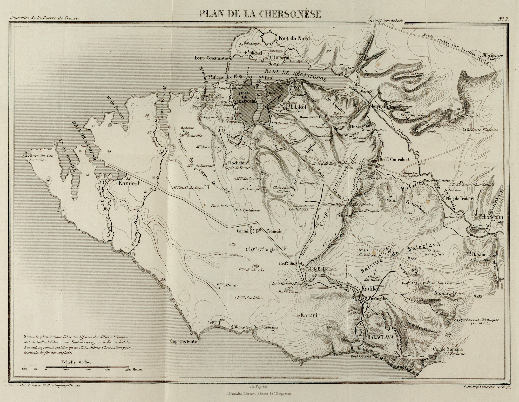 Plan de la Chersonèse by Capitaine Charles Alexandre Fay, French staff officer. Published 1867 by J Dumaine, Imperial Librarian, Paris. Map of Chersonèse showing the routes between the port of Balaklava and the Siege of Sevastopol (1854–1855), including the Grand Crimean Central Railway. Scaled to 35% of original